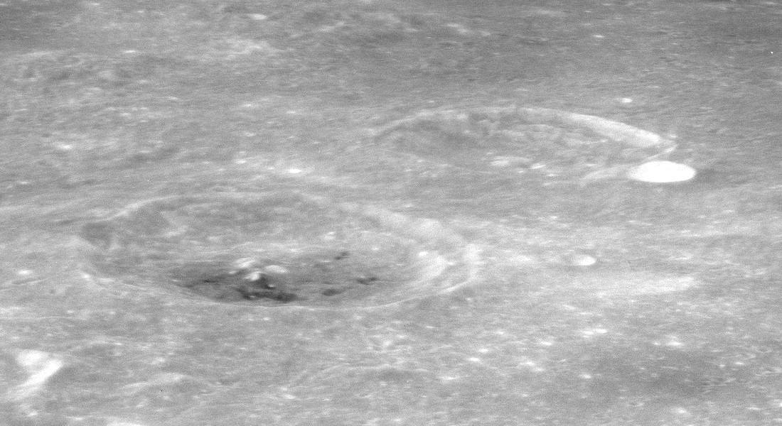 Oblique view of Franklin crater (lower left) and Cepheus crater (upper right), on the moon. Taken by Apollo 16 panoramic camera during Trans-Earth Injection. Brightness and contrast adjusted in GIMP.